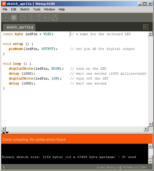 Screenshot of Wiring IDE, version 1.00